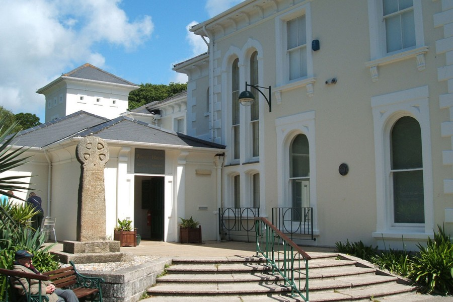 Penlee House - Penzance - Penwith - Cornwall - UK